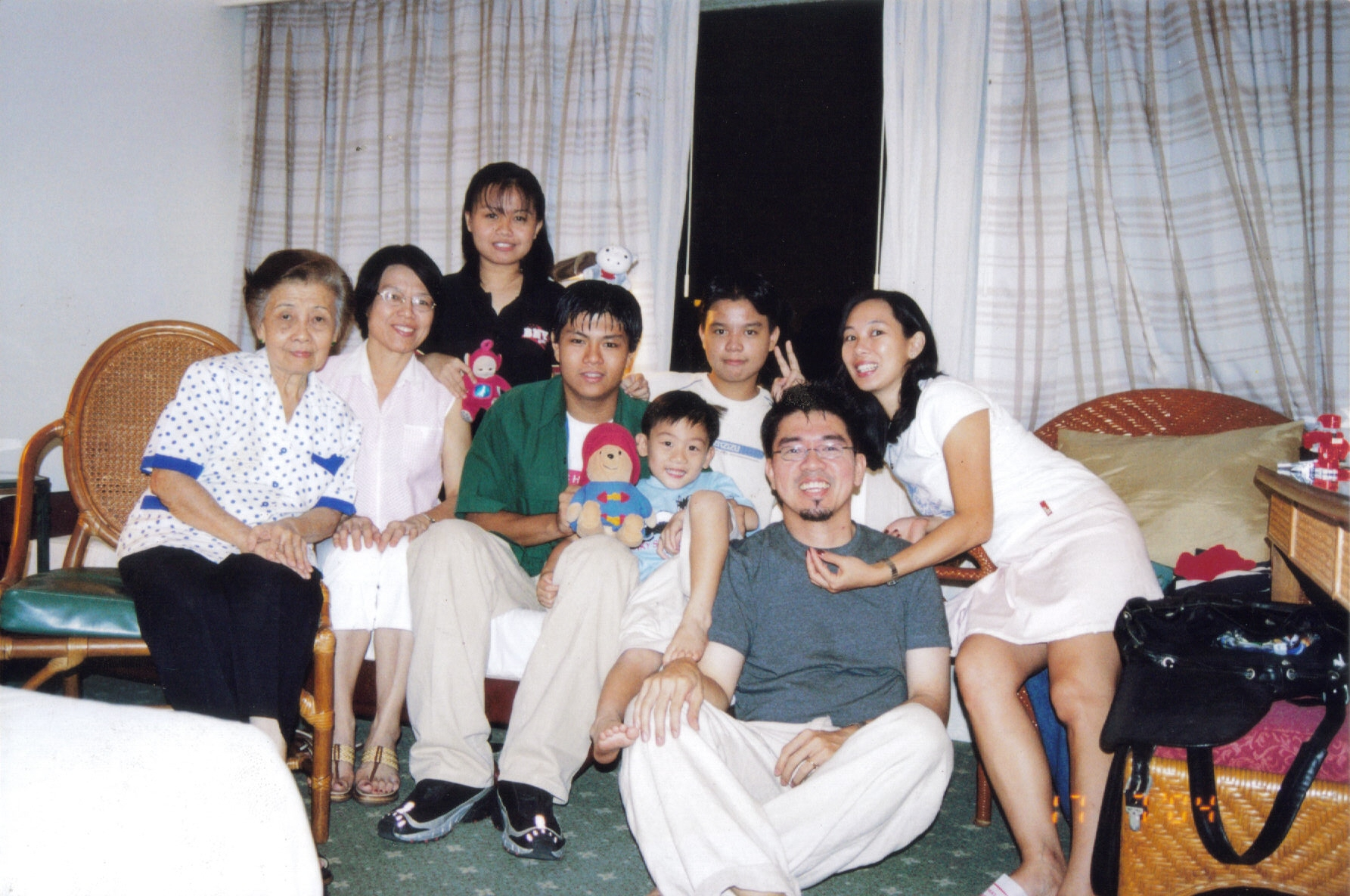 A photograph of the Philippinian pianist Albert Tiu together with his wife(Susan,) mother(Ma. Loreta,) sister(Helen,) son(Alexander) niece(Meryl,) nephews(Hansel & Raffy.)